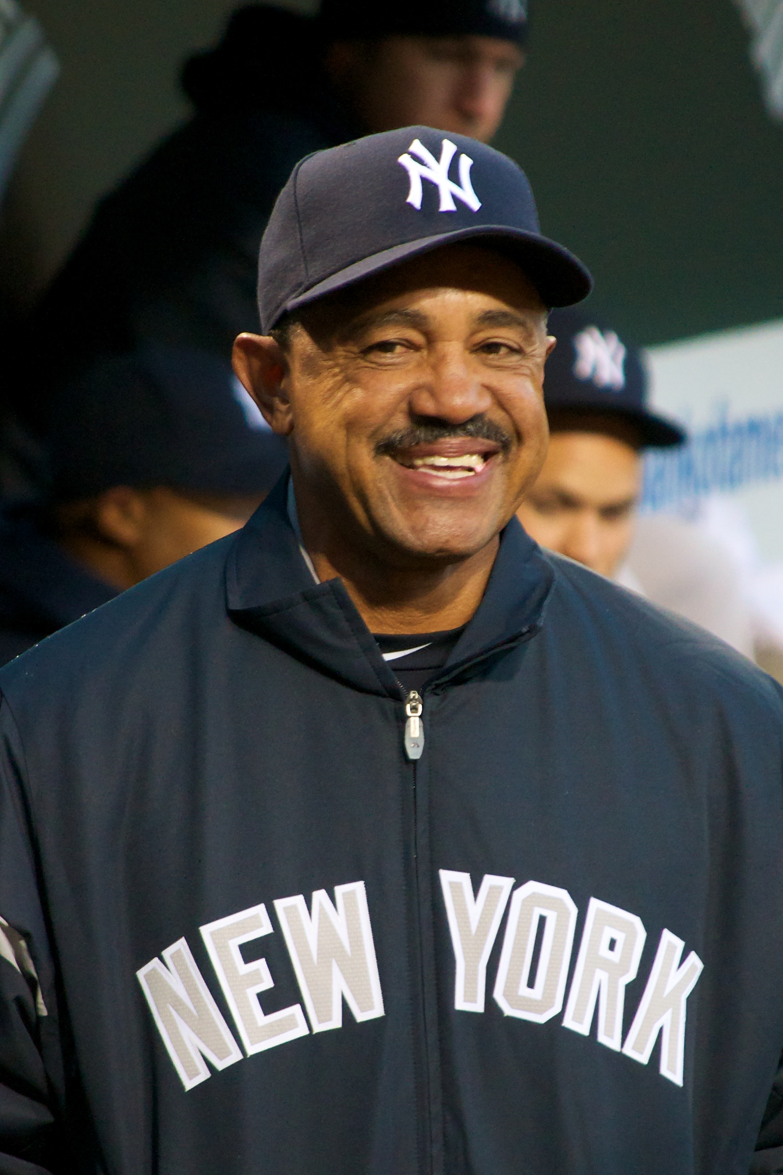 Tony Peña in the Away dugout of Camden Yards, 2012-04-11.